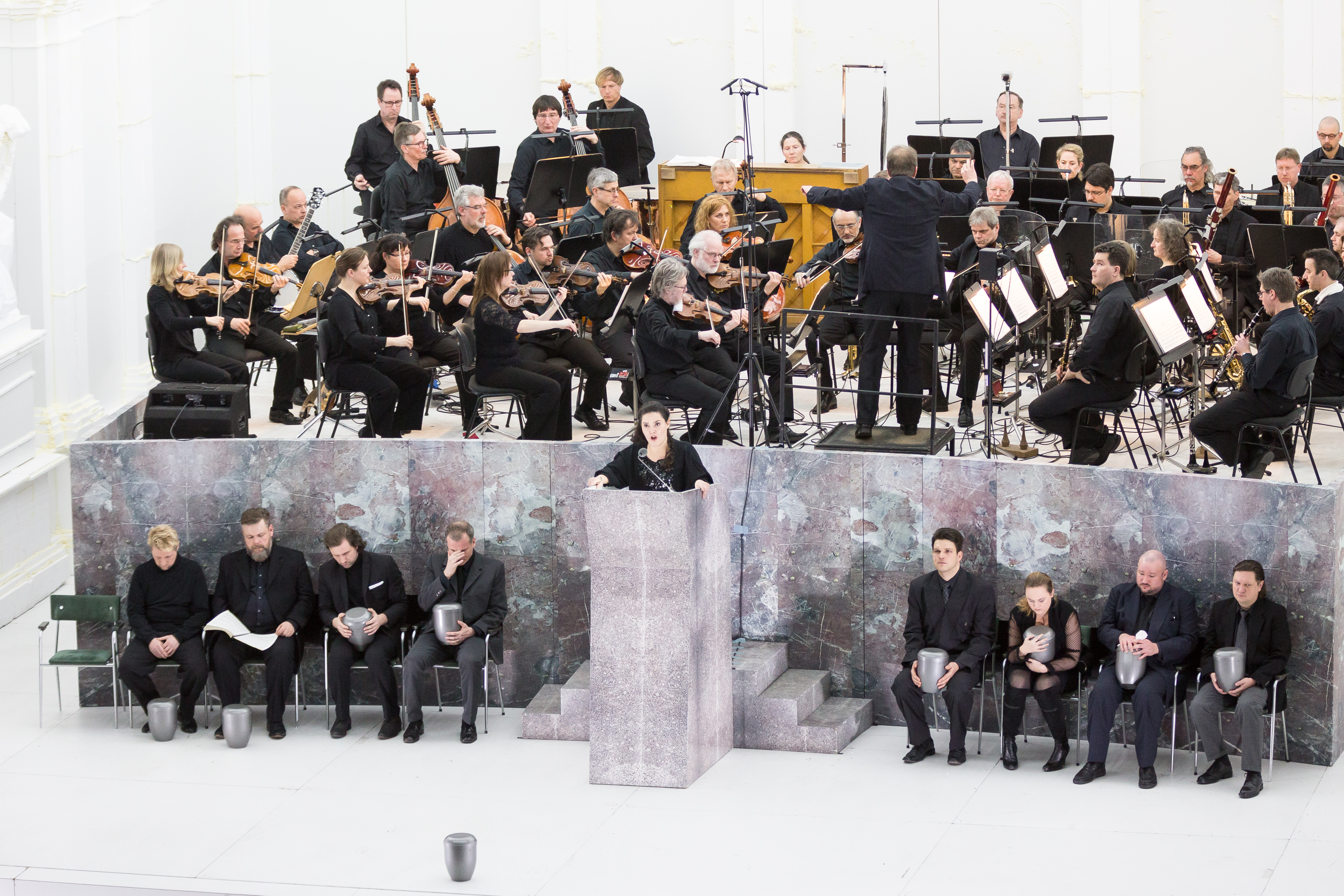 Perfomance of the Opernhaus Halle